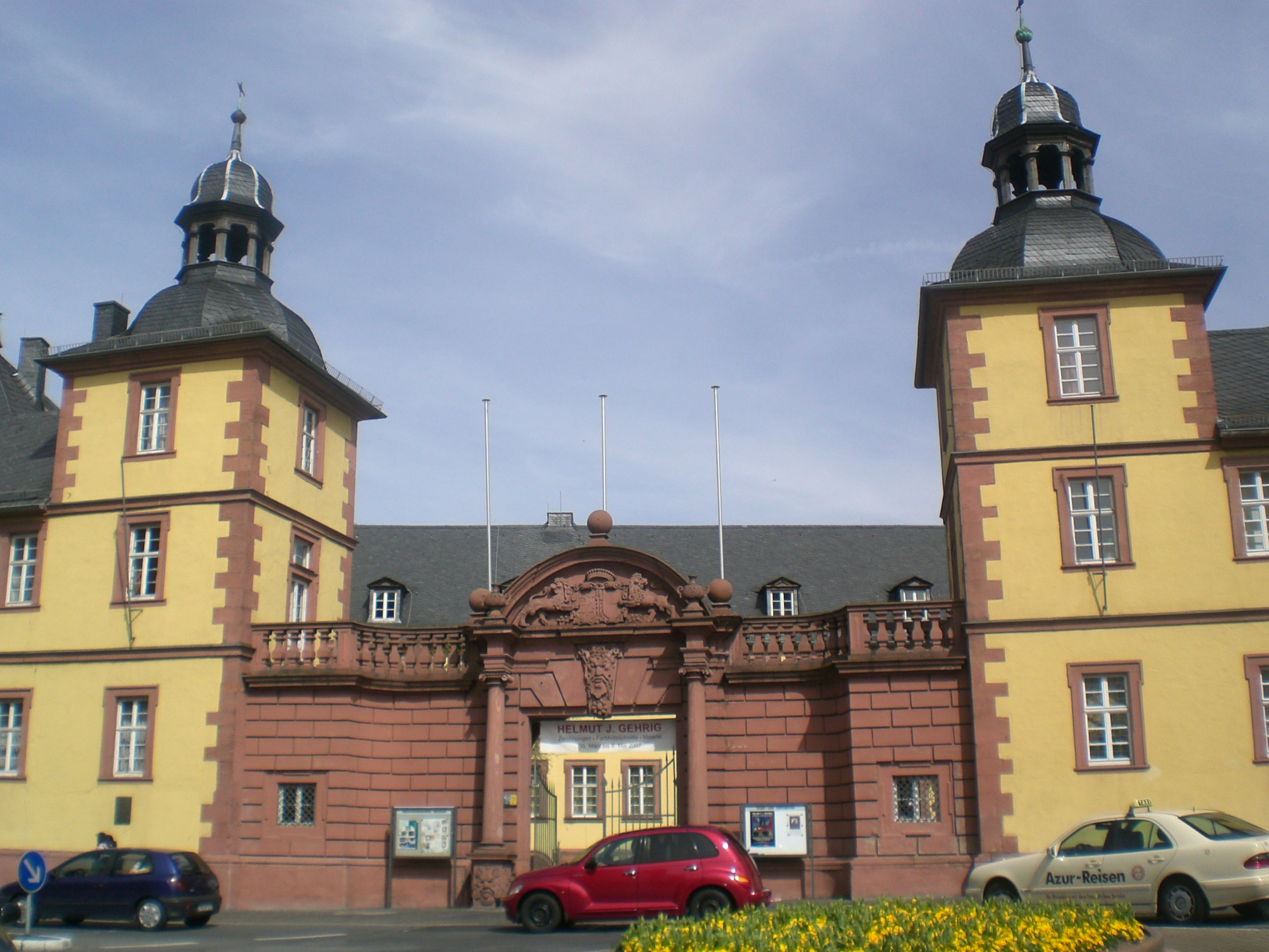 The castle Schönborner Hof is a historical building in Aschaffenburg (Germany).